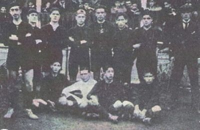 FC Malagueño 1914.